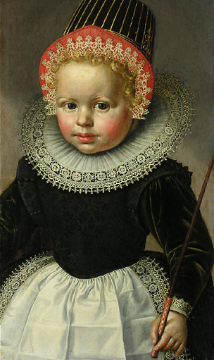 Portrait of a child, Oil on wood, 56 cm x 34 cm